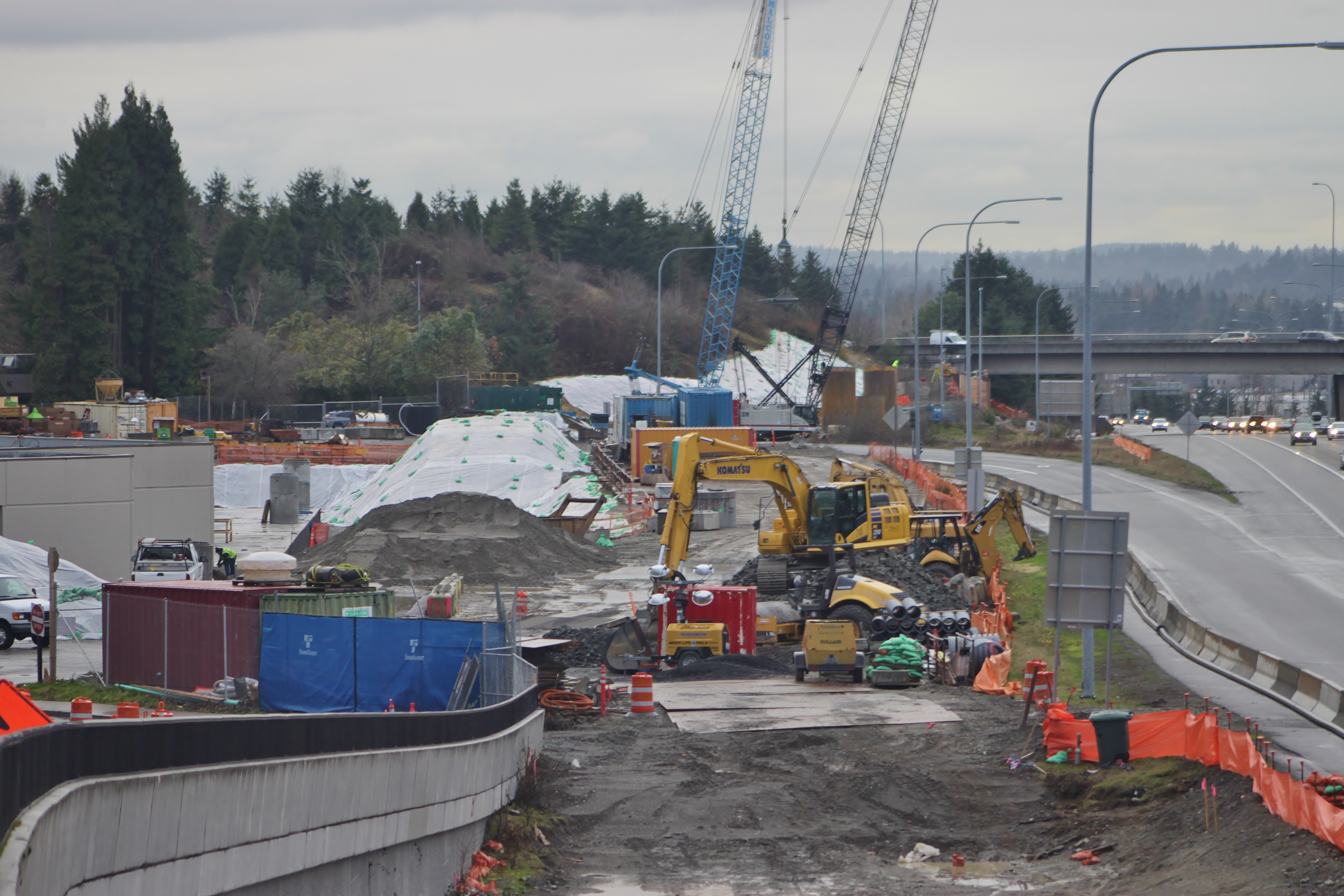 The future Overlake Village station on East Link in Redmond, Washington, seen from 152nd Avenue NE.